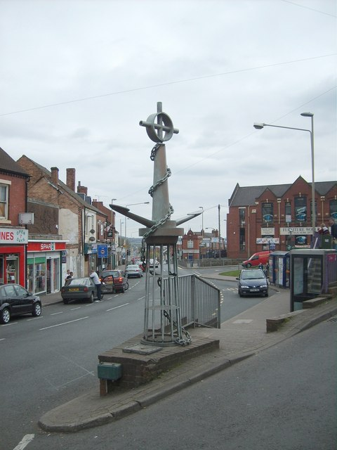 Netherton Anchor. The Anchor in Netherton town centre represents the local history of chain making. The trade was also carried on in nearby Tipton 362238.